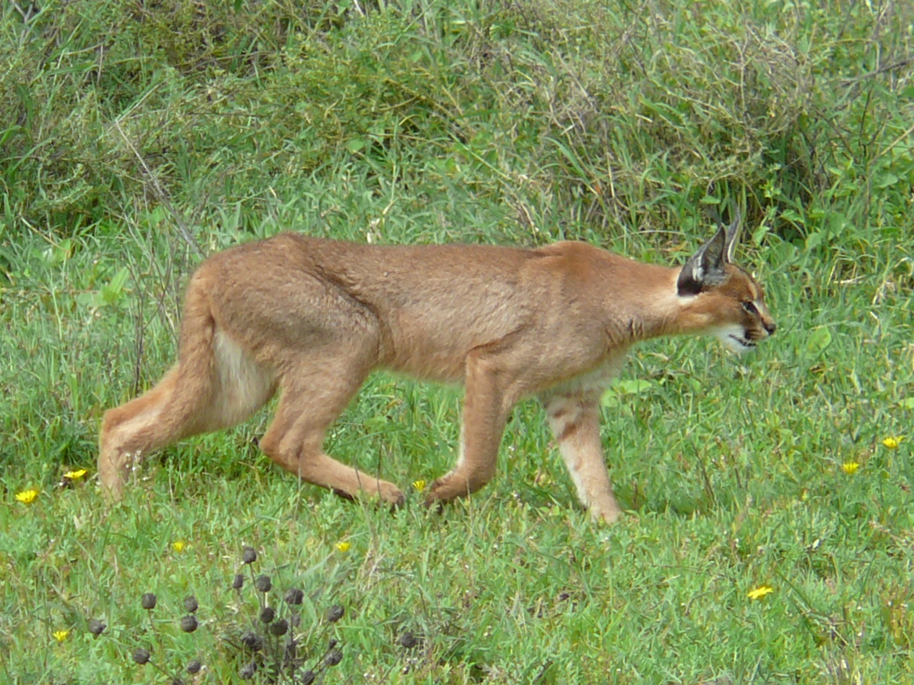 Caracal caracal This photo was taken in January 2007 by Nick and Melissa Baker in the Serengeti. Thanks go to Alex, our guide, and Green Footprint Adventures.